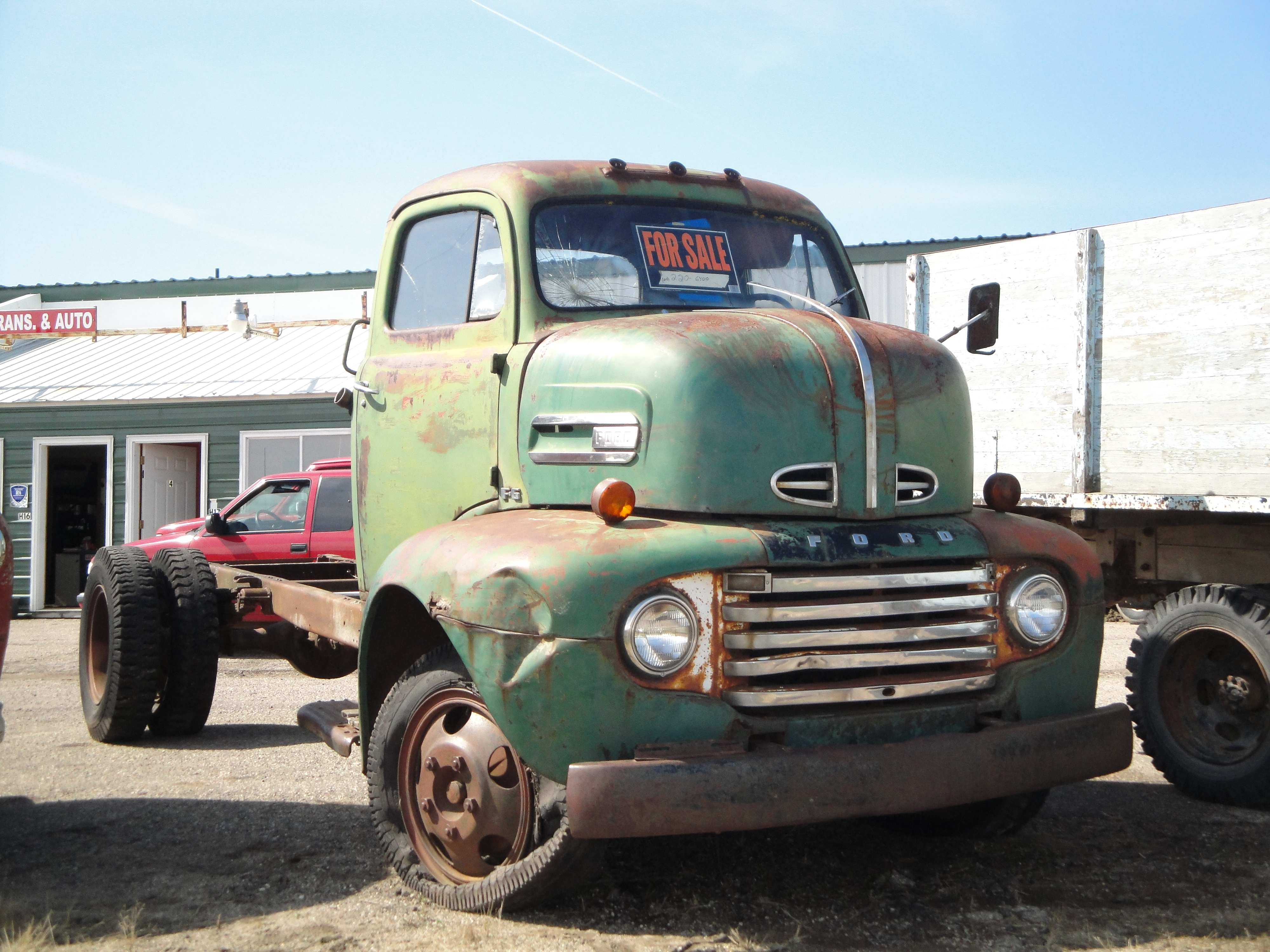 51 Ford F-6 Cabover Truck.